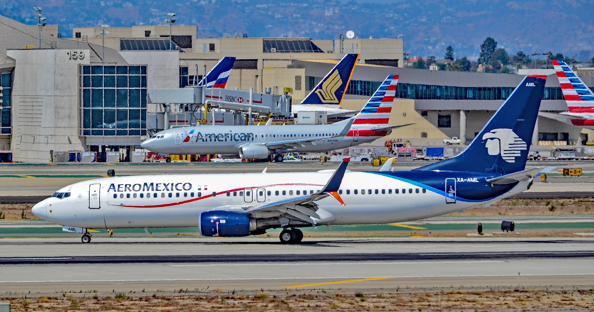 N967NN American Airlines Boeing 737-823 s/n 31214 Los Angeles International Airport (IATA: LAX, ICAO: KLAX, FAA LID: LAX) Photo: TDelCoro September 3, 2017